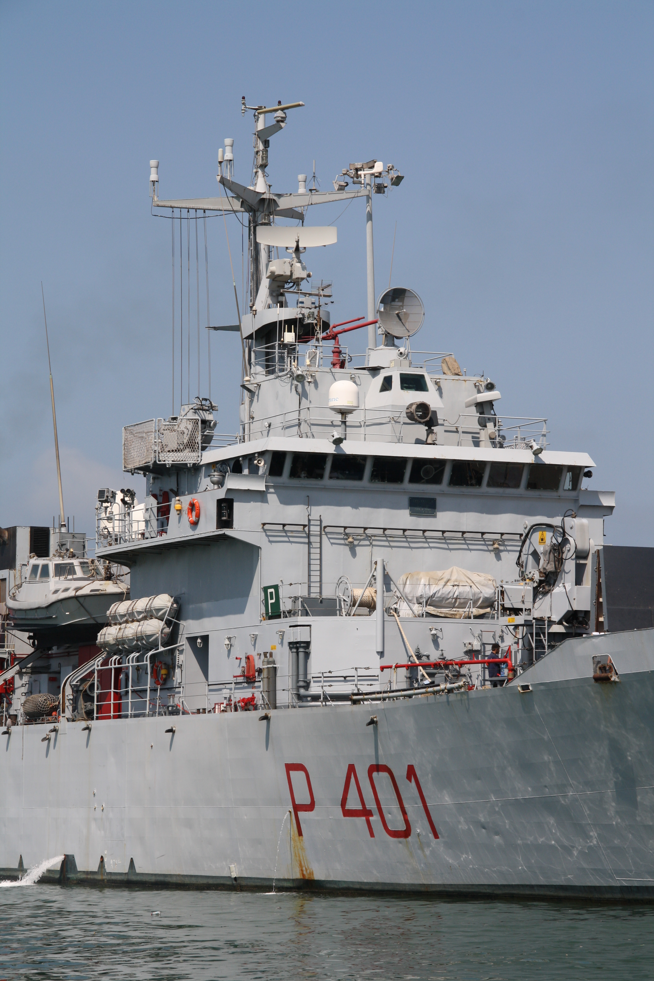 Italy Navy: Marina Militare Type: Patrol vessel Keel laid: December 16, 1987 Launch date: July 20, 1988 Shipyard: Cantiere navale del Muggiano, La Spezia Displacement: 1745 t Length overall: 81 m Beam: 11,8 m Draft: 4 m Main engine: 2 diesel GMT BL-230.16M Speed: 16 knots Crew: 74 Armament: 1 OTO Melara 76/62, 2 machine guns KBA 25/80, 2 machine guns MG 42/59